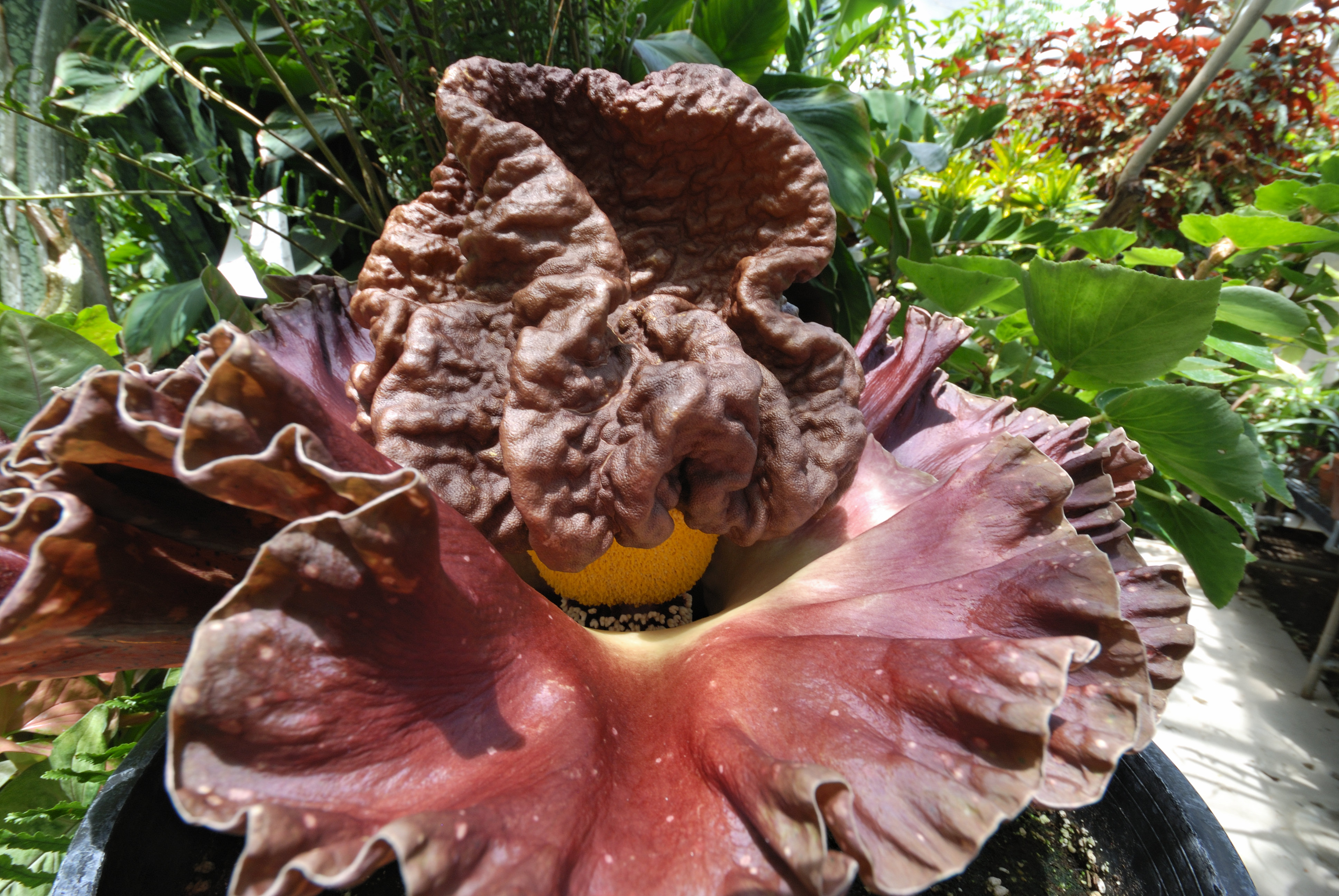 Amorphophallus paeoniifolius (at Binghamton University 2009)